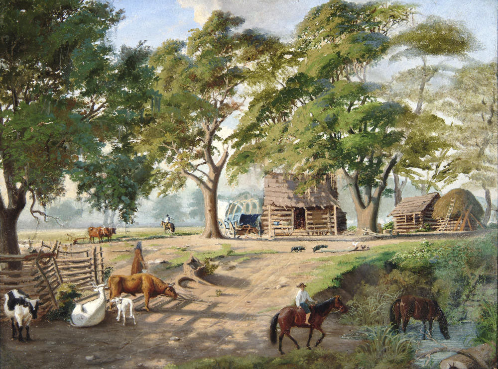 Log Cabin near New Braunfels